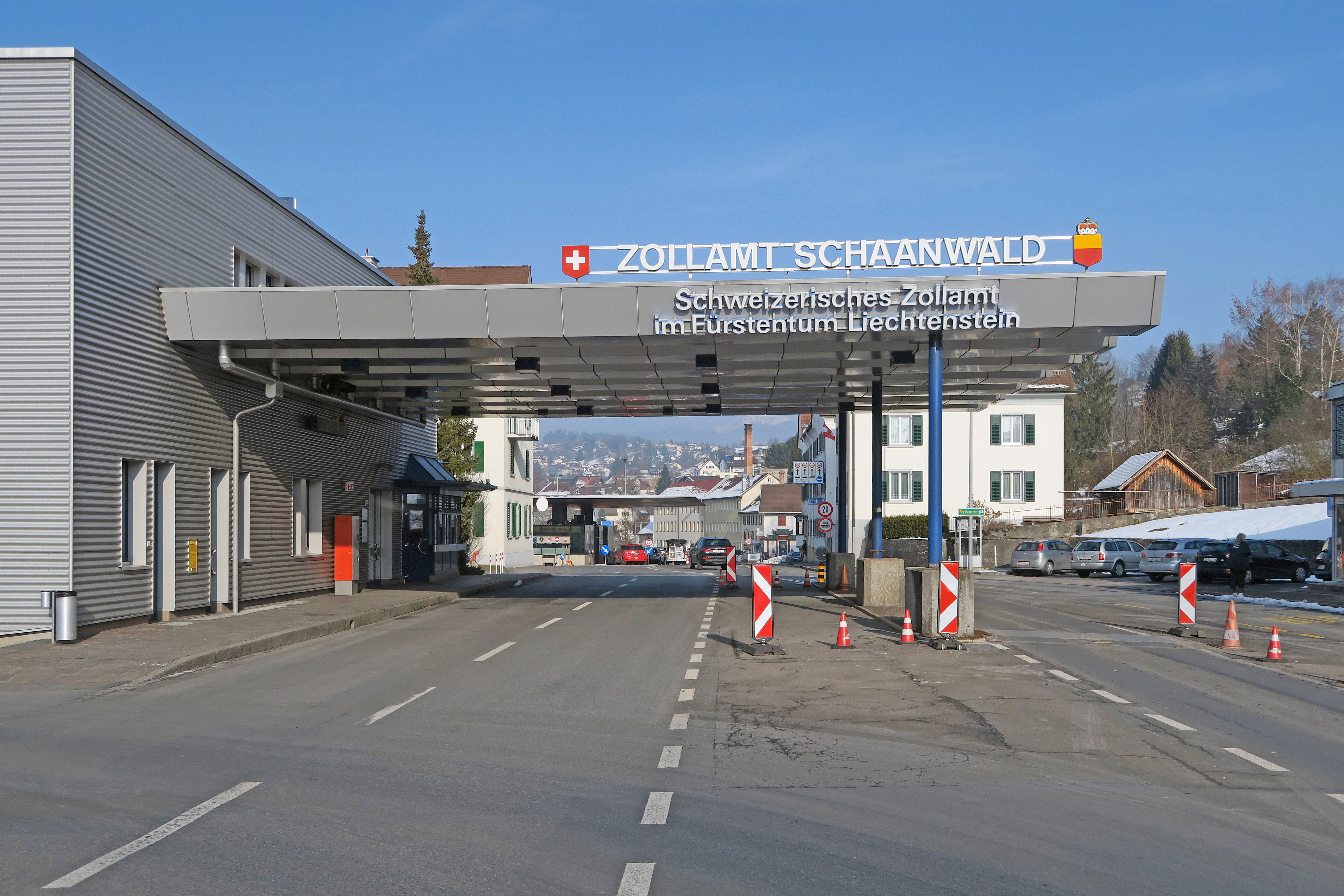 Anyone who enter from Austria to Liechtenstein, is controlled by the Swiss border guard. This is regulated in a tariff agreement with Liechtenstein from 1923. Swiss customs at the EU external border in the Principality of Liechtenstein, Feb 16, 2015.